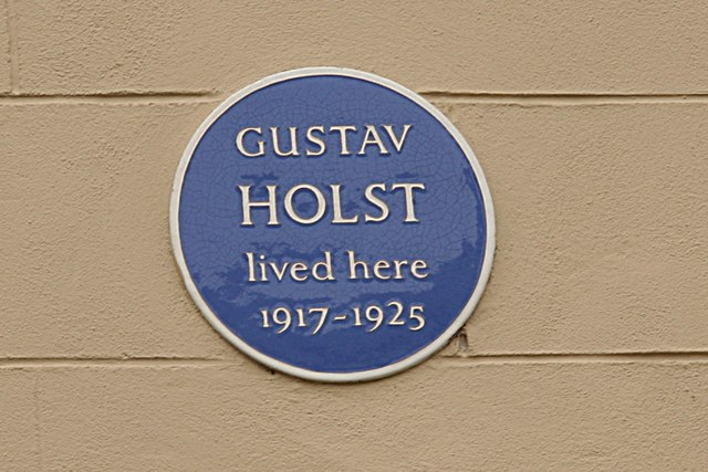 Gustav Holst blue plaque. Blue Plaque on The Manse 845330